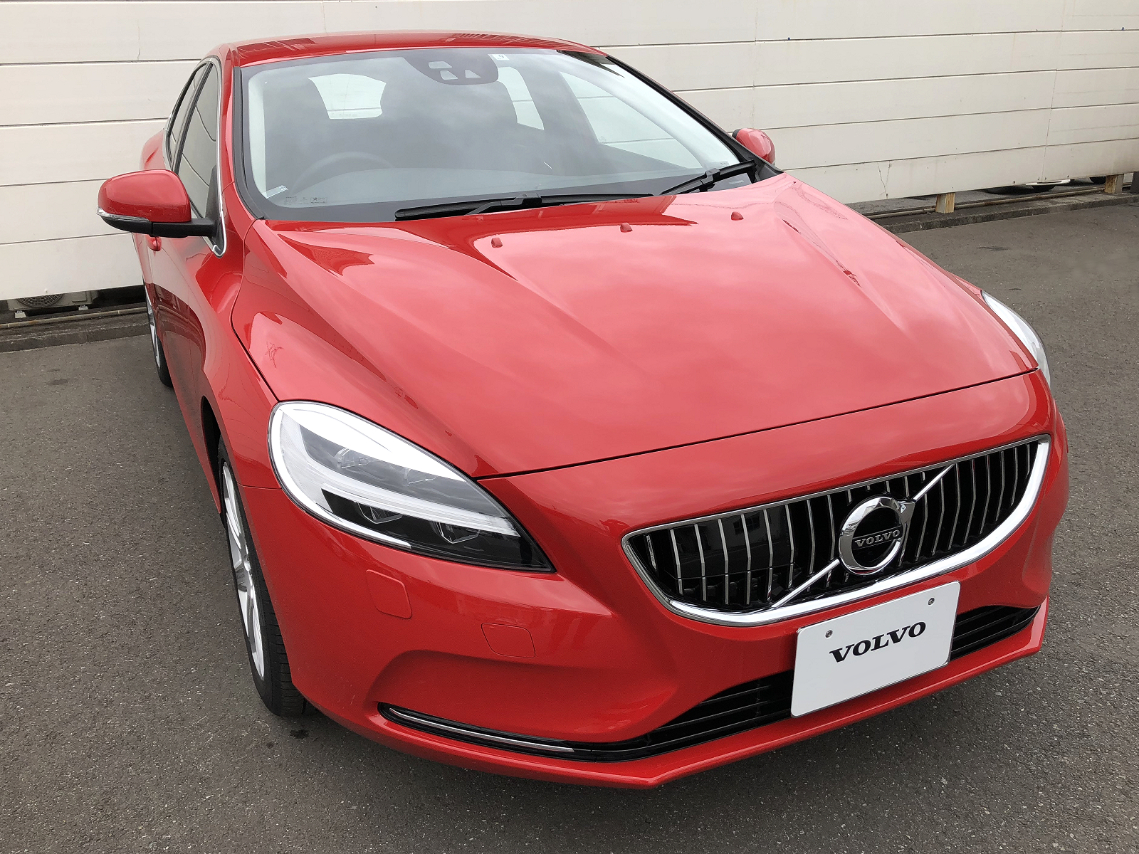 VOLVO V40 T3 Inscription FRONT(JPN).Photographed in Japan.